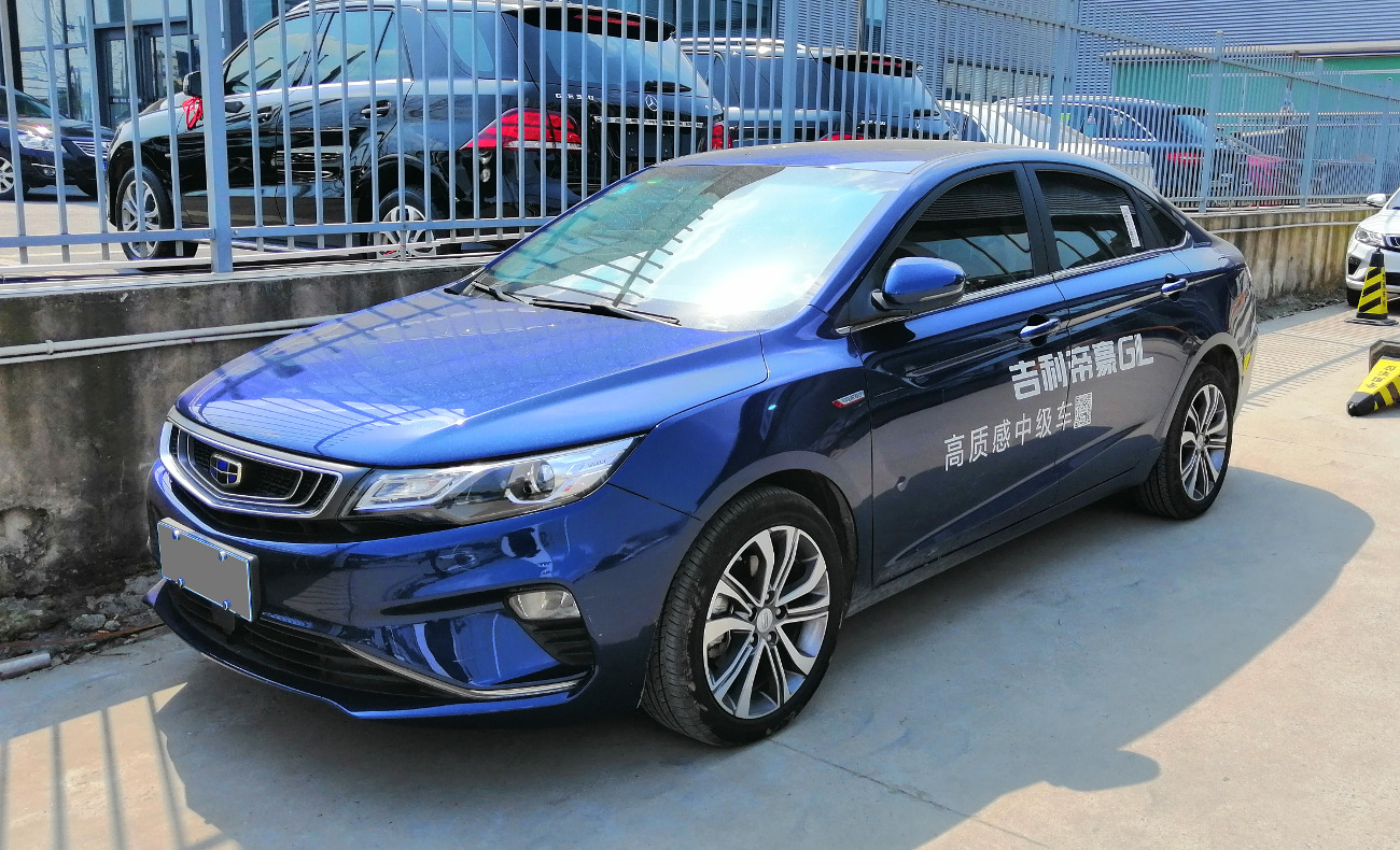 Geely Emgrand GL facelift photographed in Hefei, Anhui province, China.